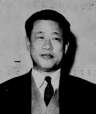 Masumi Esaki